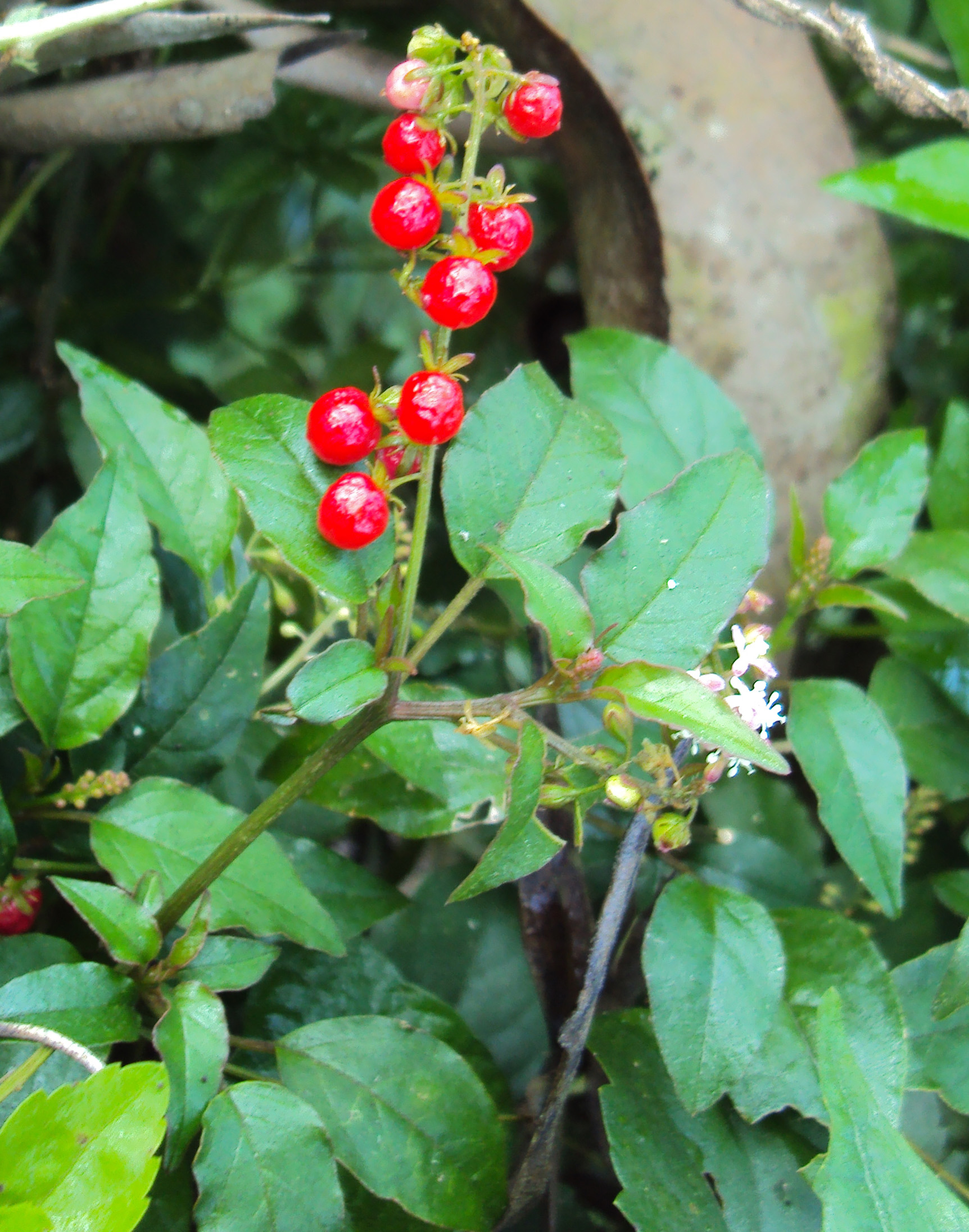 Rivina humilis